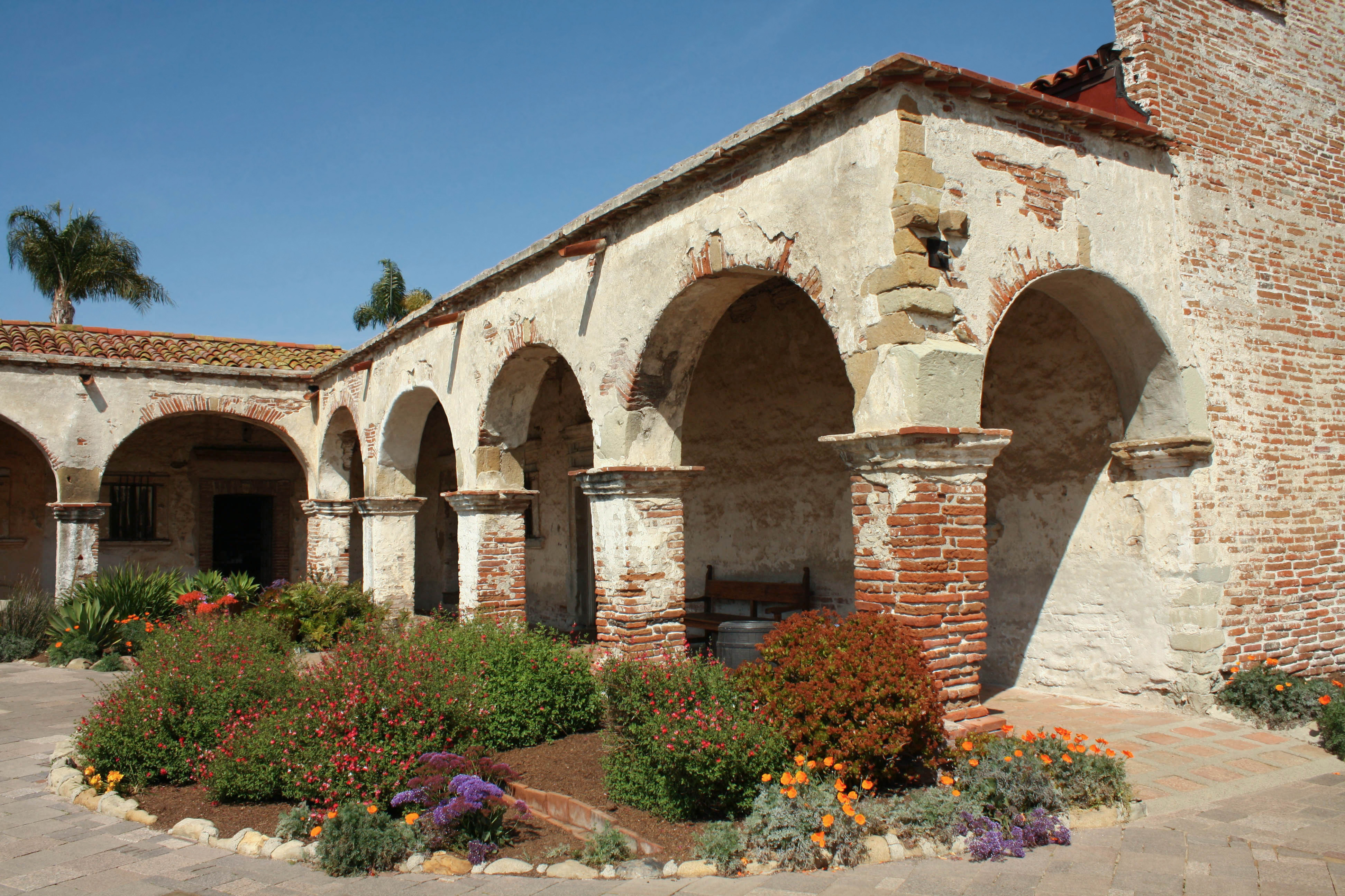 Mission San Juan Capistrano, California